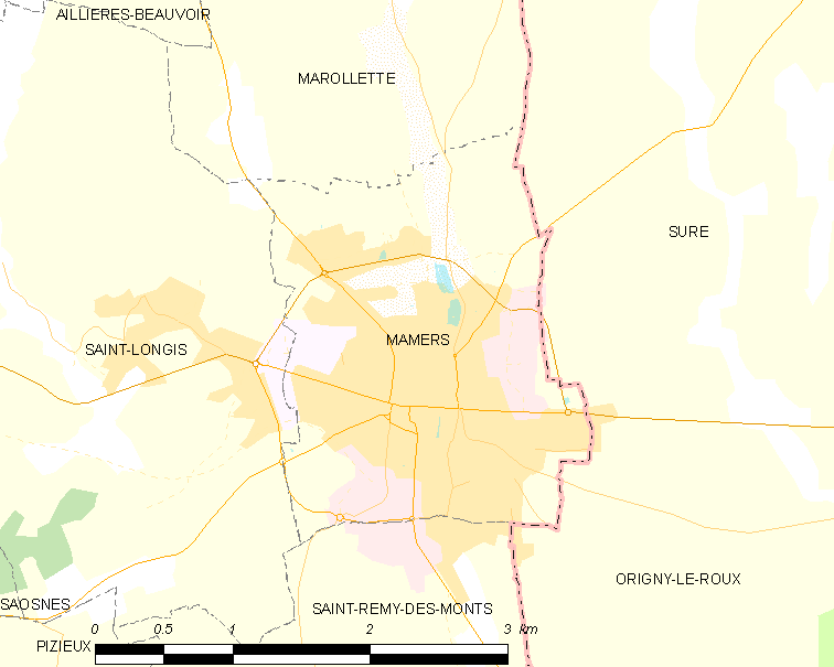 Map of French municipality